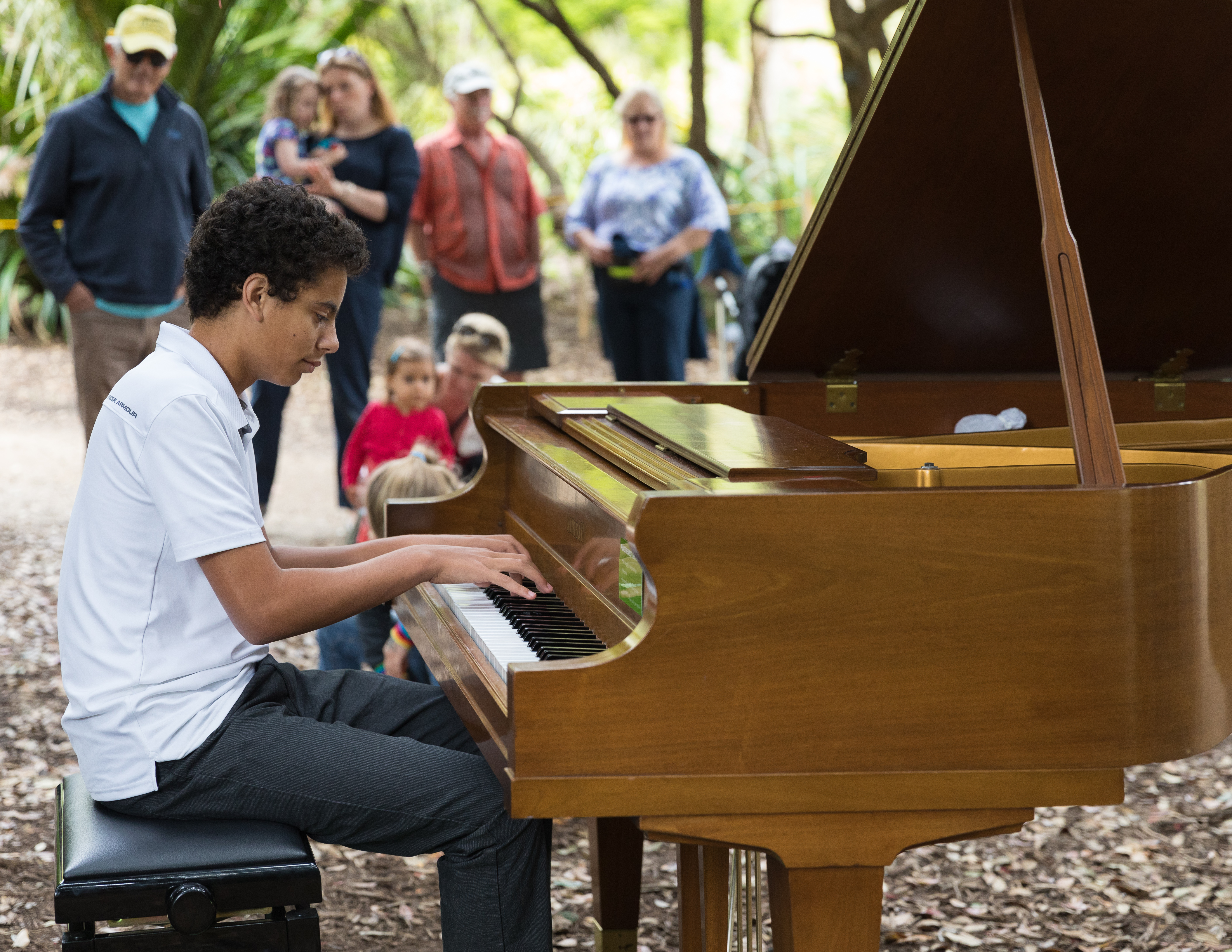 Austin Basinger playing at the 4th annual Flower Piano event at the San Francisco Botanical Garden, July 7, 2018